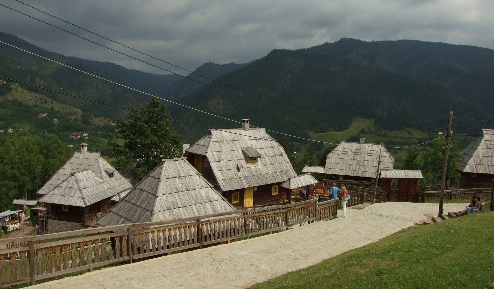 The ethnic village of Drvengrad in Zlatibor County in Serbia, well known as a location where lots of Emir Kusturica films take place.